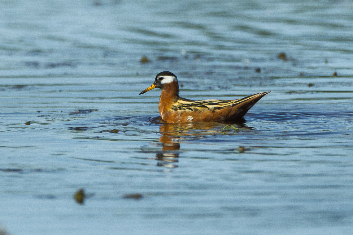 Red Phalarope - Vercellese - Italy_S4E2337